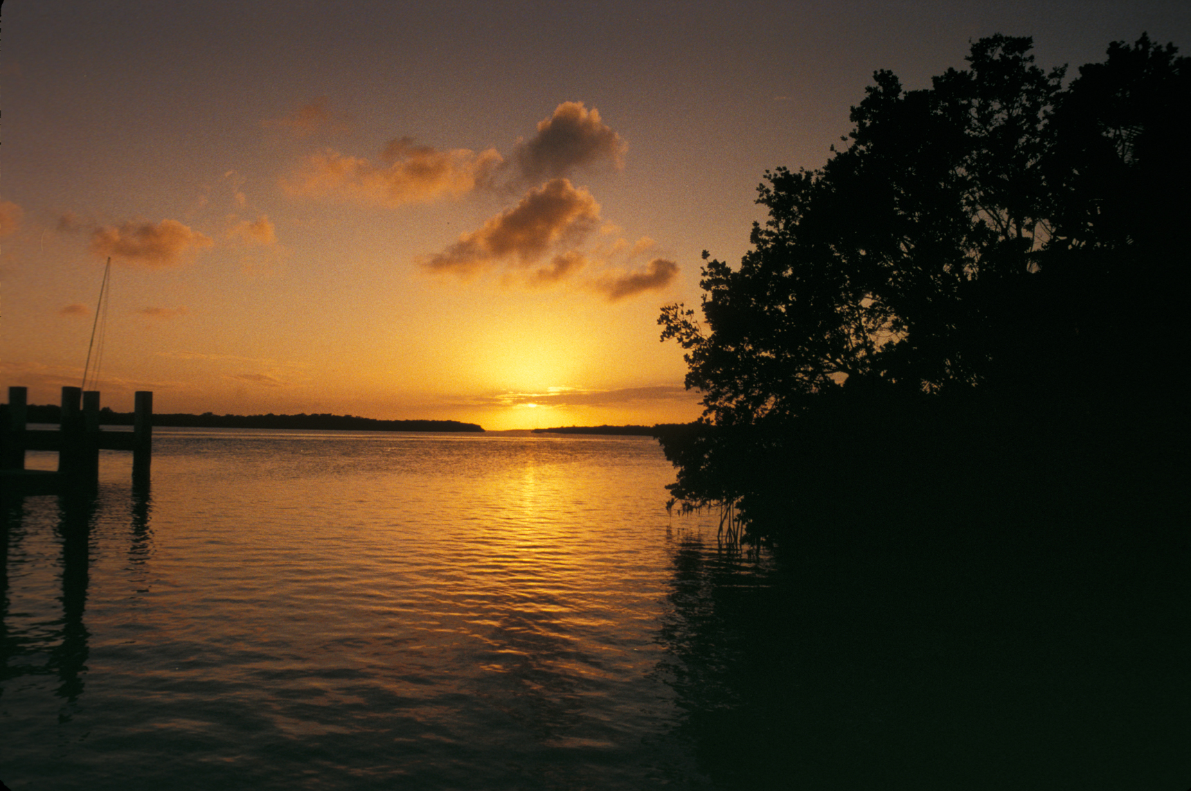 Location Biscayne National Park Description Within sight of downtown Miami, yet worlds away, Biscayne protects a rare combination of aquamarine waters, emerald islands, and fish-bejeweled coral reefs. Here too is evidence of 10,000 years of human history, from pirates and shipwrecks to pineapple farmers and presidents. Outdoors enthusiasts can boat, snorkel, camp, watch wildlife…or simply relax in a rocking chair gazing out over the bay.